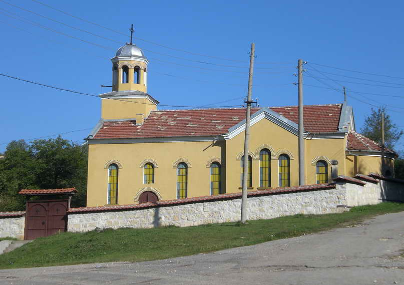 The church in village Osikovo, Popovo municipality